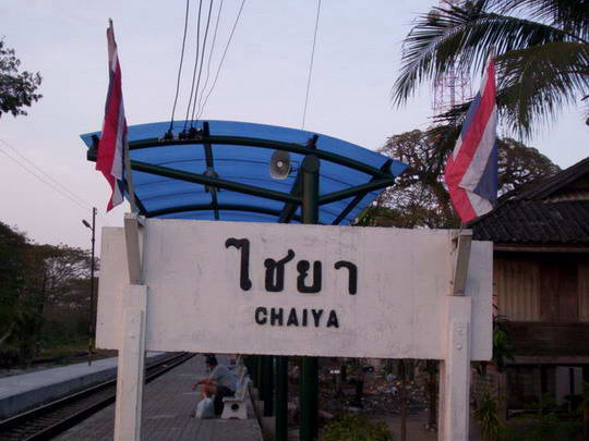 Chaiya Railway Station Signboard.